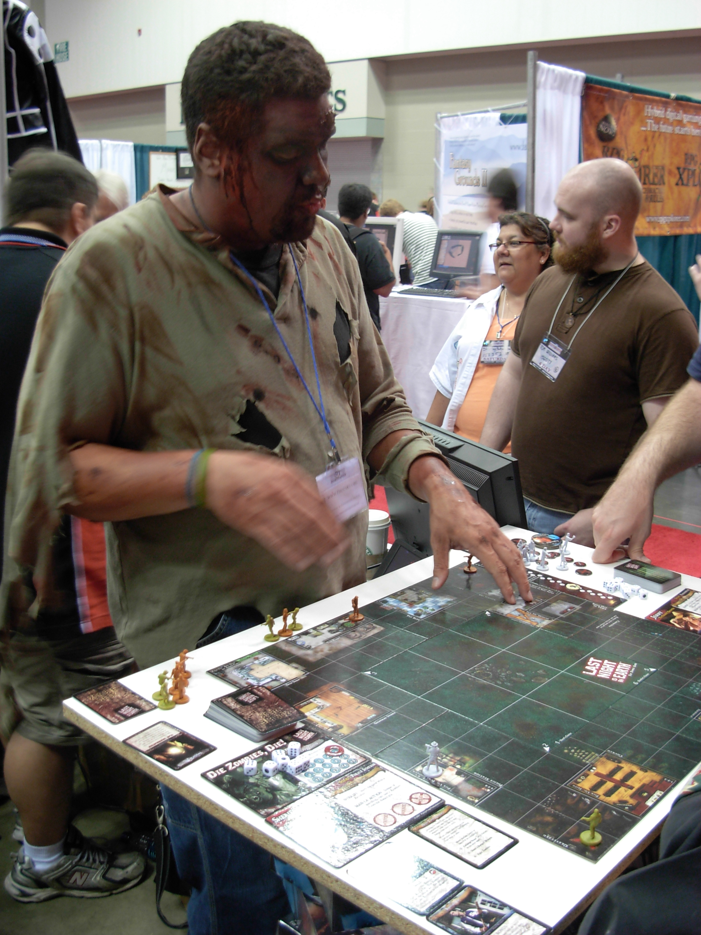 Photos from Gen Con Indy 2007. The game is Last Night on Earth: The Zombie Game.